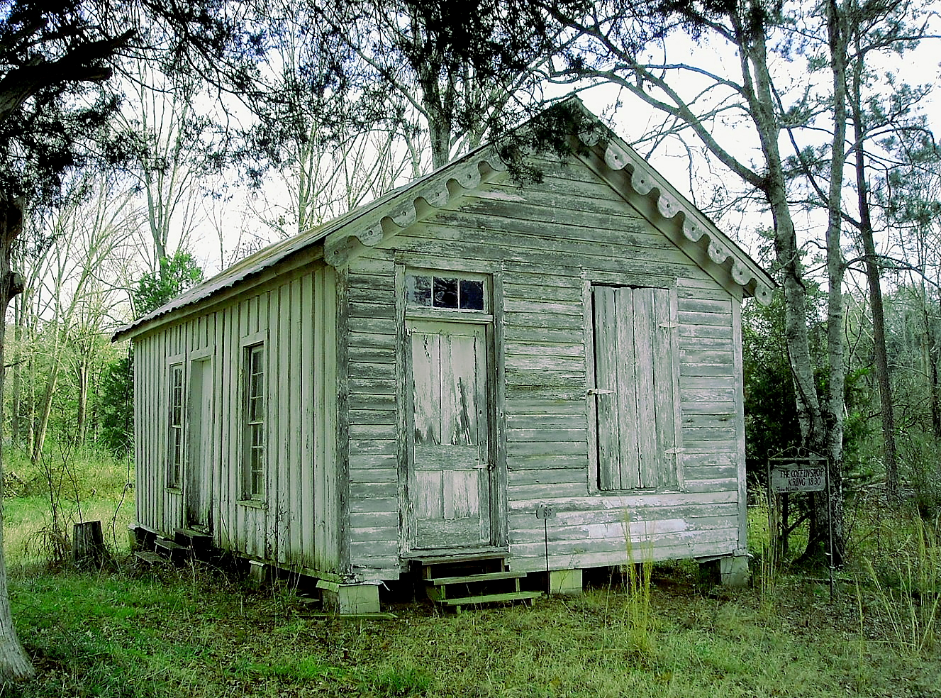 The Coffin Shop in Gainesville, Sumter County, Alabama, listed on the National Register of Historic Places. Built c.1870.